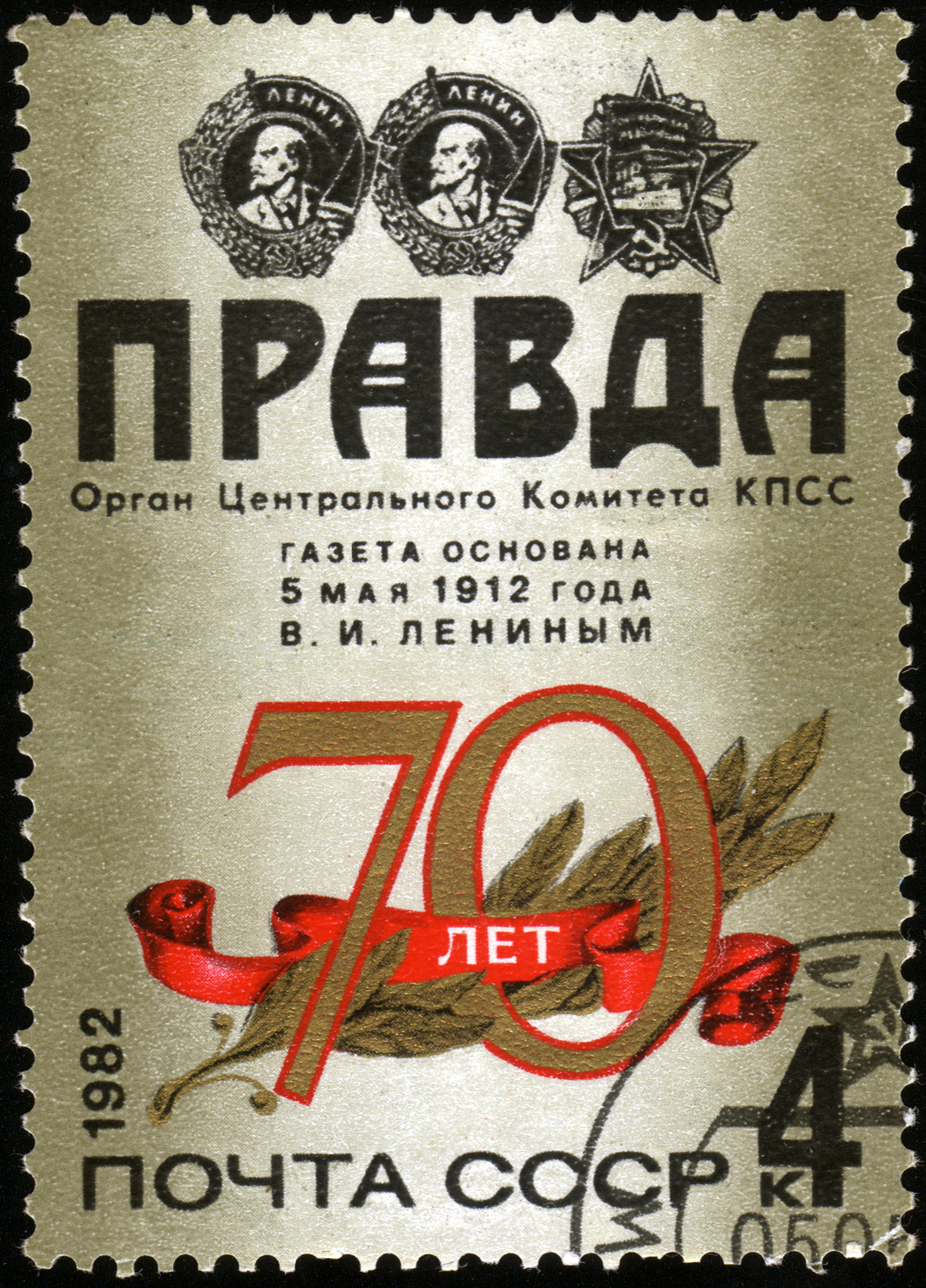 USSR Stamp of 1982 4 kopeks, multicolor, dedicated to the 70 th anniversary of the newspaper "Pravda". Logo heading of "Pravda" with the orders of Lenin and Order of the October Revolution that it was awarded, (Soviet Union stamp catalogue [CPA] №: 5289) (Scott Catalog №: 5039)